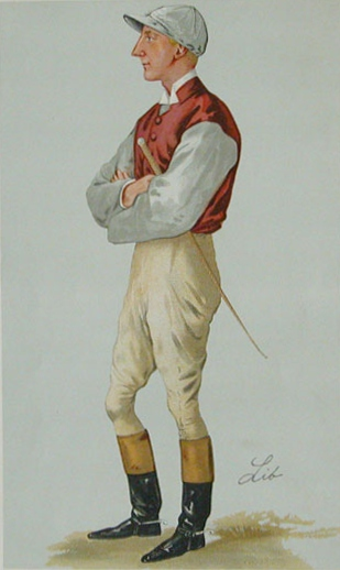 Caricature of John Watts (1861-1902). Caption read "Johnny Watts". Biography